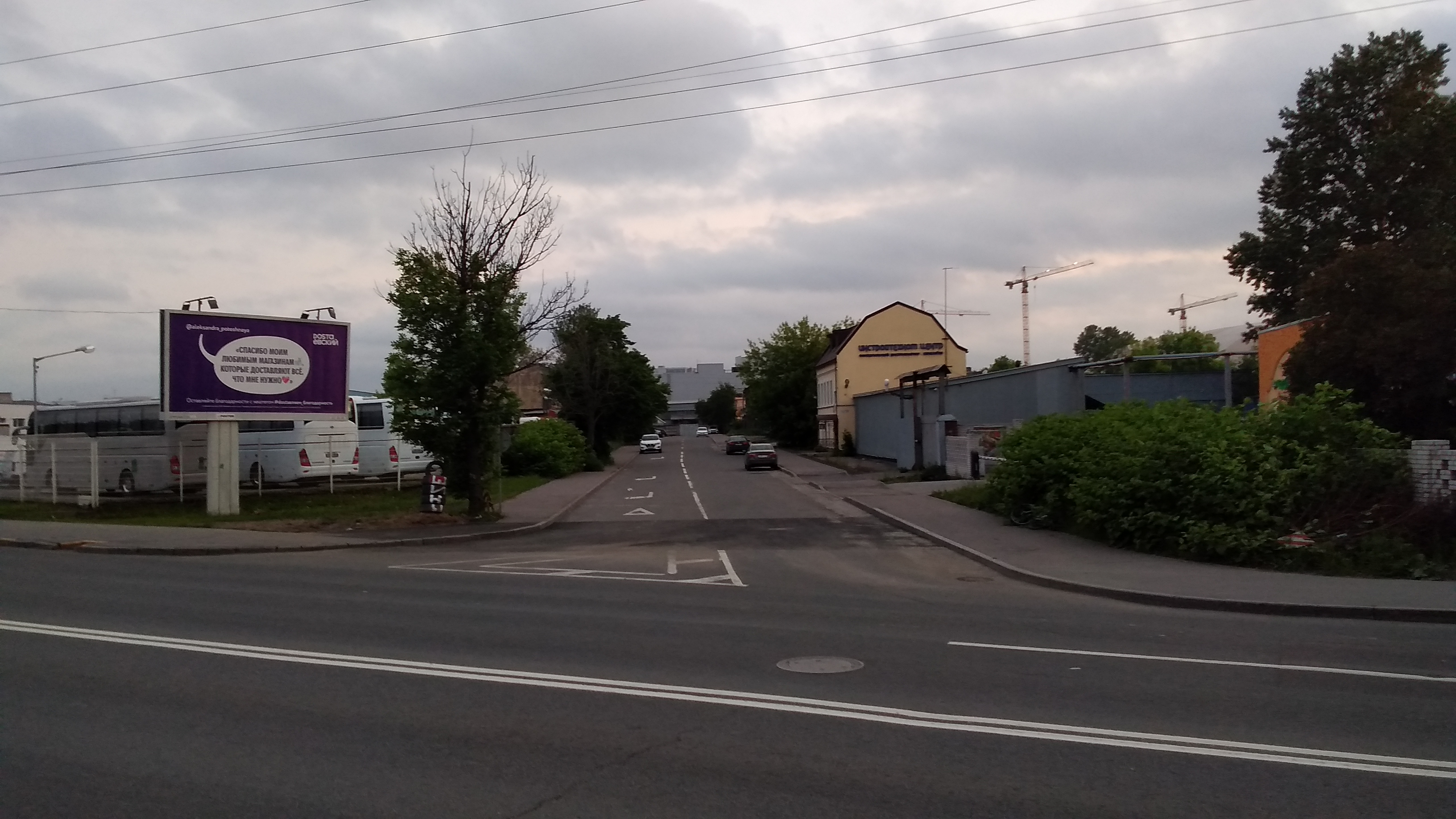 Emelyanova street St Petersburg